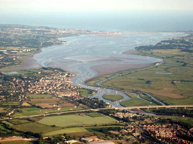 Exe estuary and Exmouth (Note that I have edited this photo in Paint Shop Pro to rotate it slightly, enhance the contrast and sharpness and remove some of the blue cast. Smalljim 13:23, 18 May 2007 (UTC))